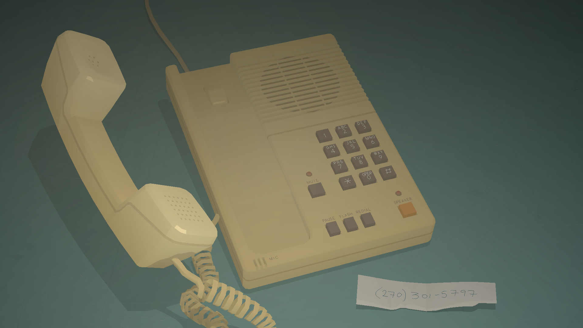 Screenshot of the game Kentucky Route Zero.